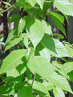 Yellow Birch